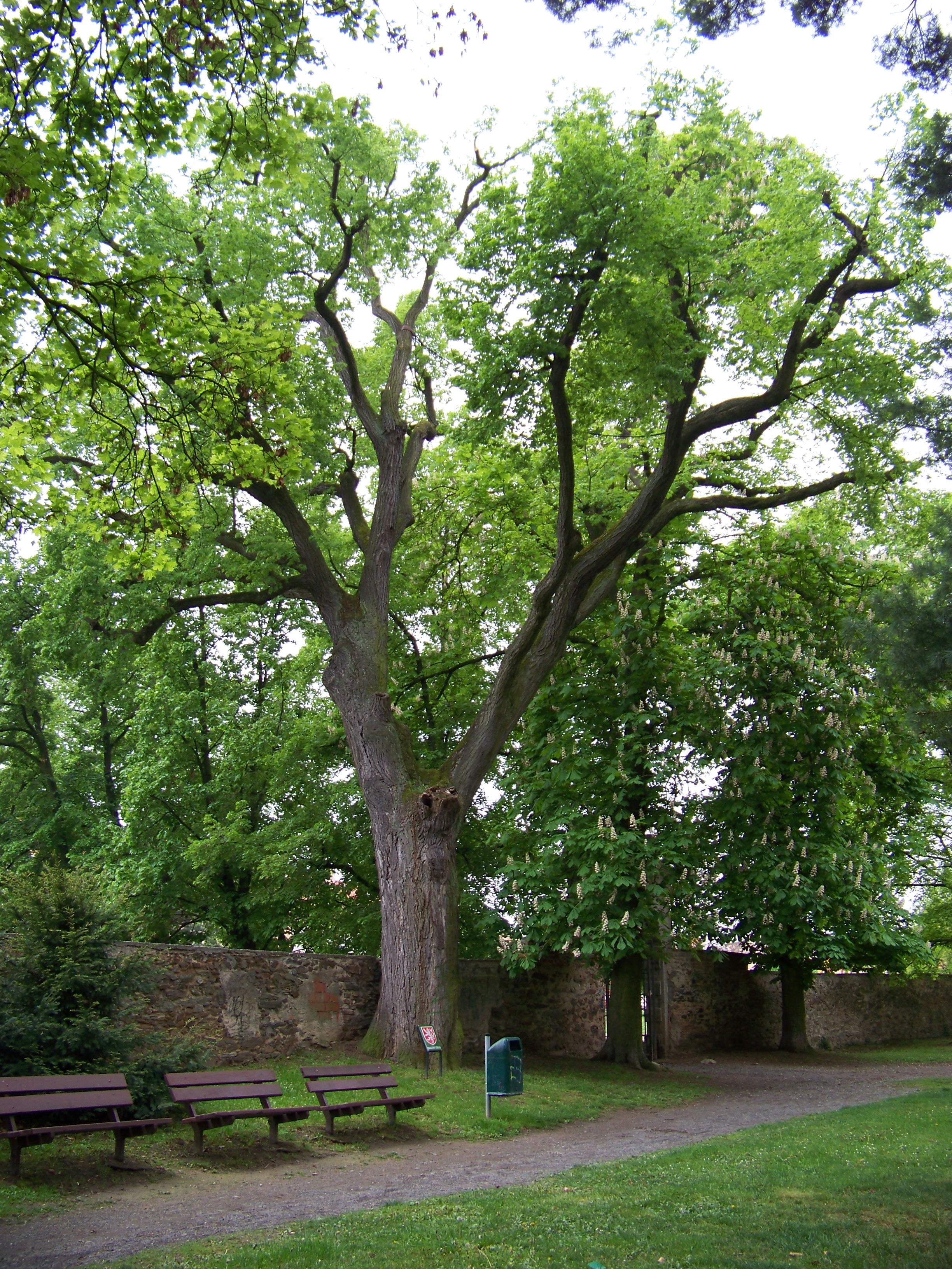 Prague-Kunratice, Czech Republic. A park of Kunratice Castle, a memorable lime tree.